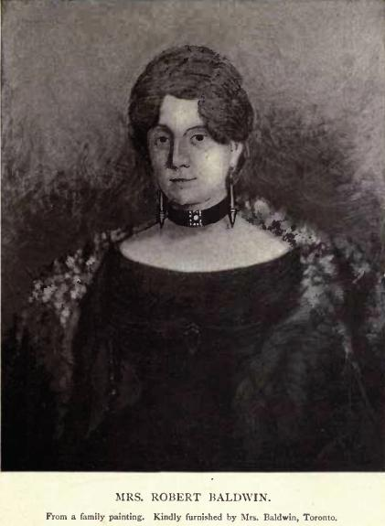 Mrs Augusta Elizabeth Baldwin, wife of Robert Baldwin